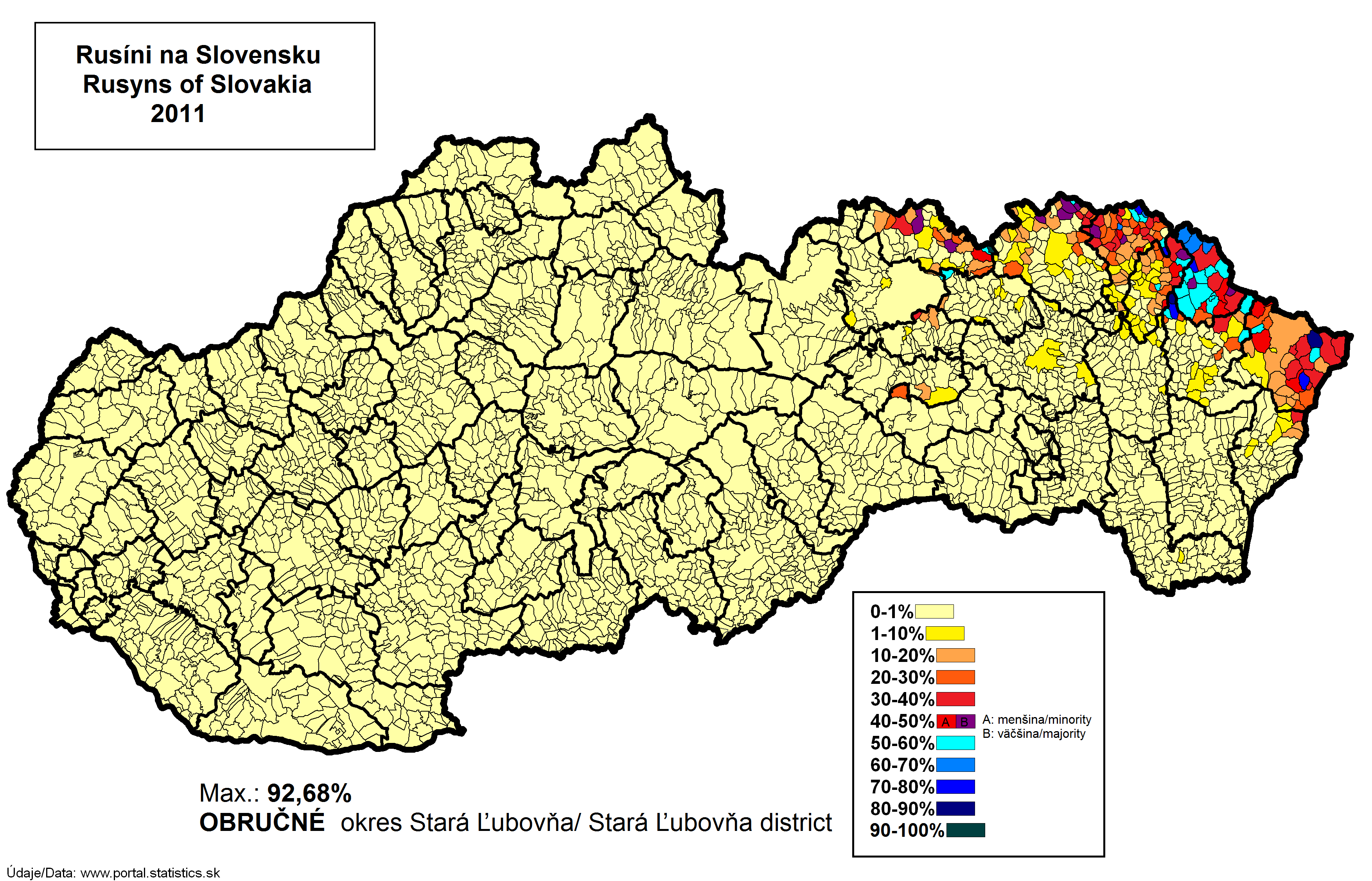 Rusyns of Slovakia in 2011.